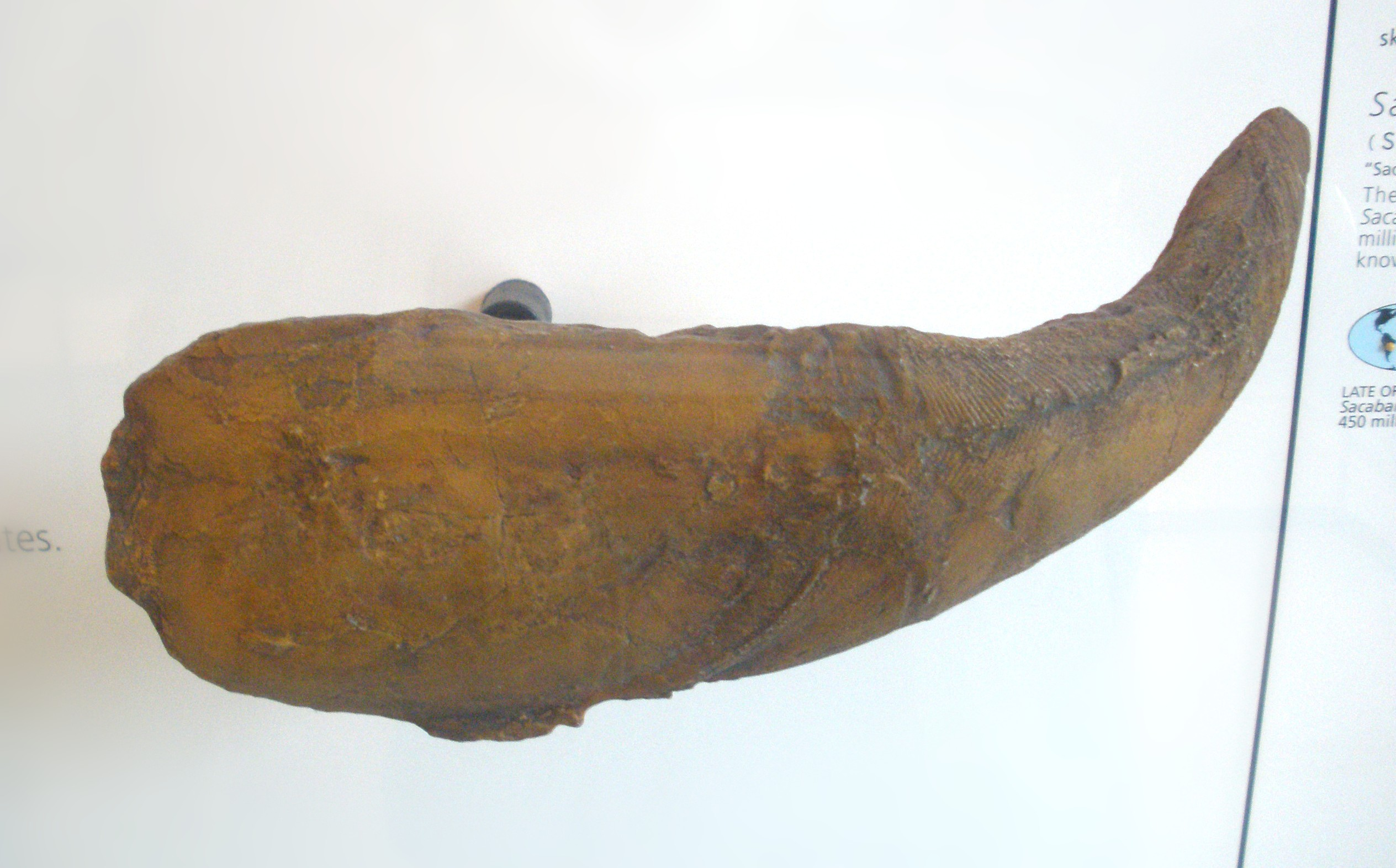 fossil of Sacabambaspis, an extinct chordate